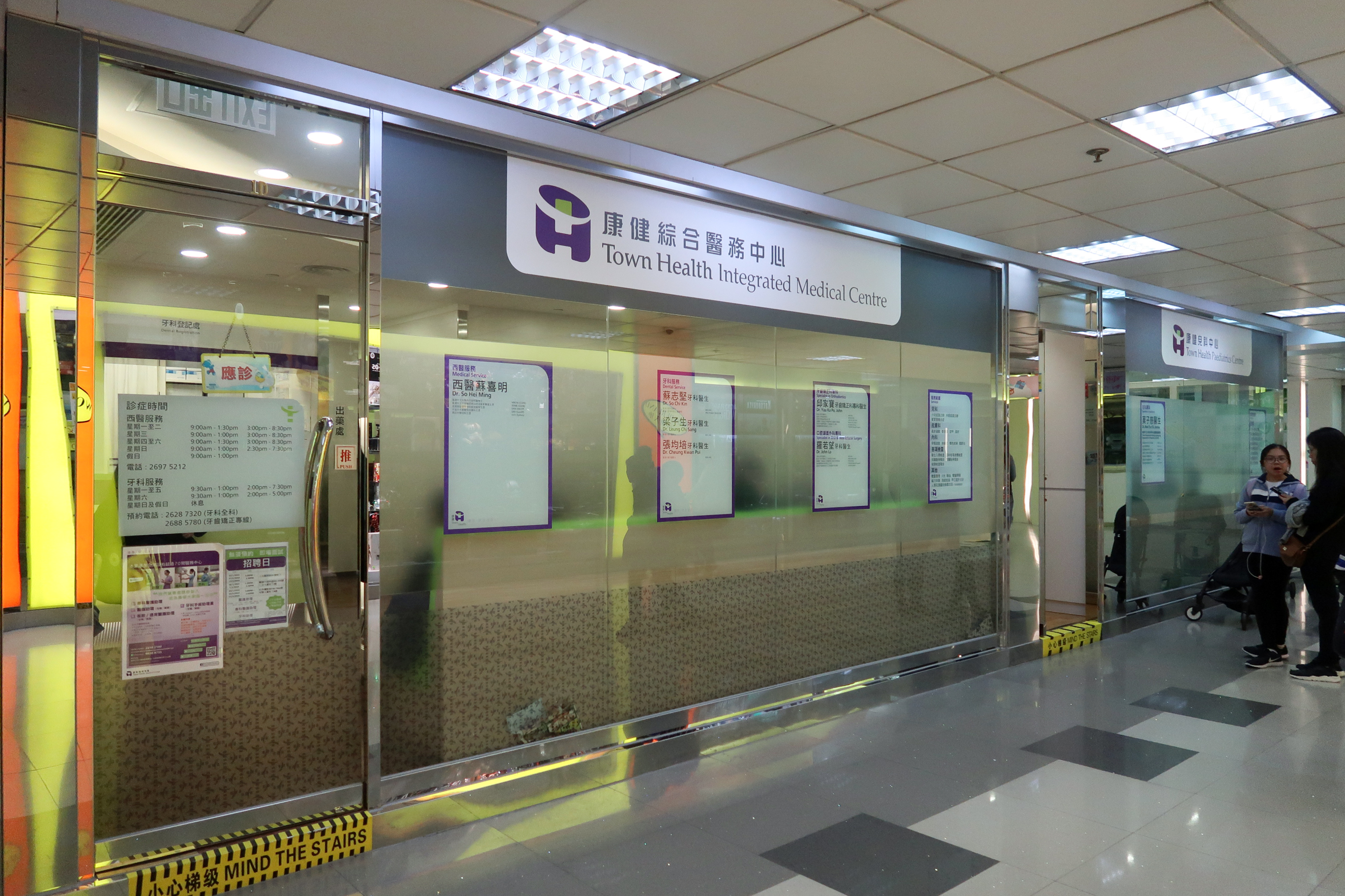 Town Health Integrated Medical Centre in Hilton Centre